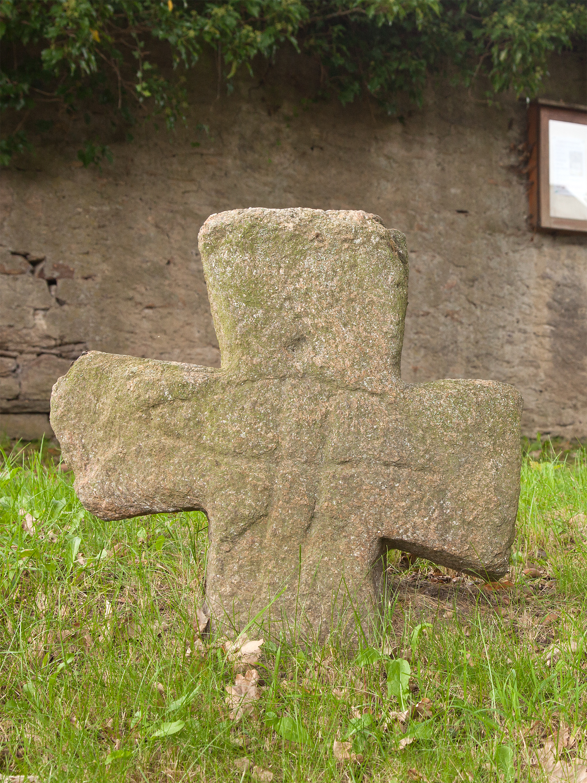 Kirchbach (Oederan), stone cross